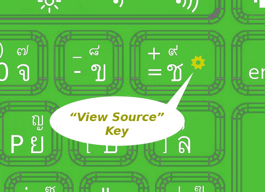 One Laptop per Child: close-up view keyboard, upper right corner - view source key